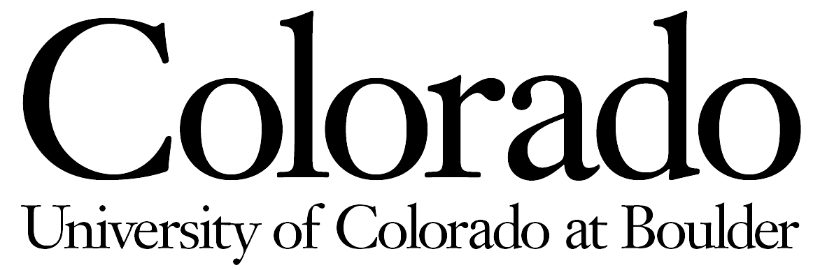 Wordmark of the University of Colorado at Boulder